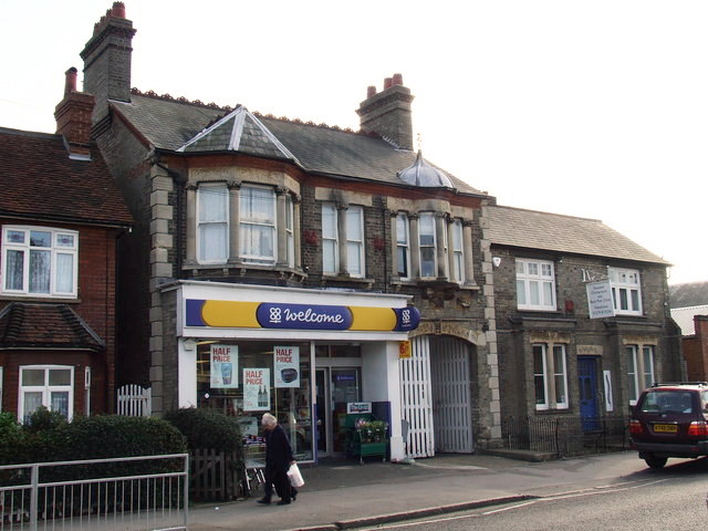 Co-op shop. On Cambridge Road. See the ornate carvings on this building here 593459.